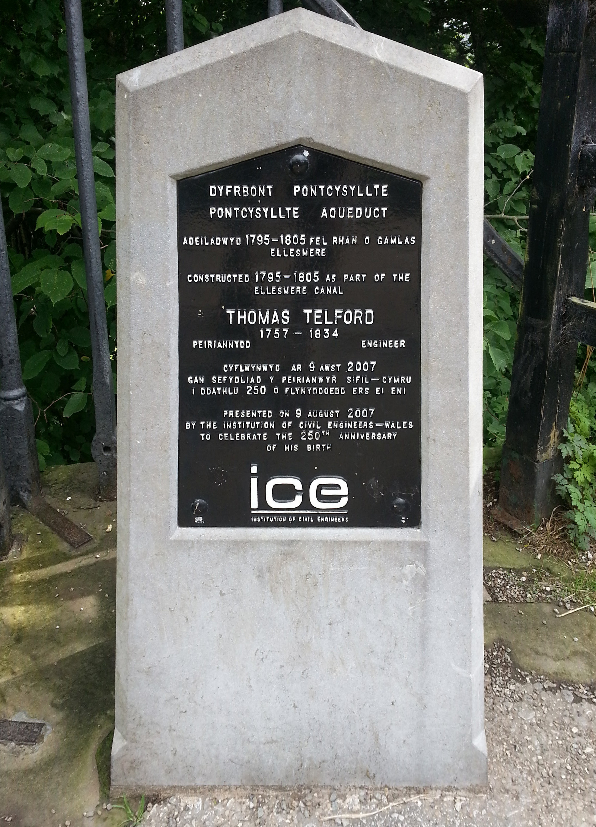 Pontcysyllte aqueduct plaque Pontcysyllte Aqueduct Constructed 1795-1805 as part of the Ellesmere Canal Thomas Telford 1757-1834 Presented on 9 August 2007 By the Institution of Civil Engineers - Wales To Celebrate the 250th Anniversary of his Birth